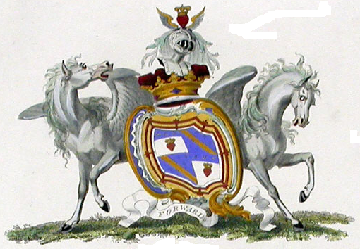 Coat of arms of the 1st, 2nd and 3rd Dukes of Queensberry.